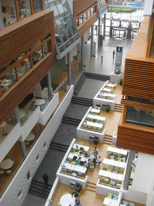 BI Business School Oslo